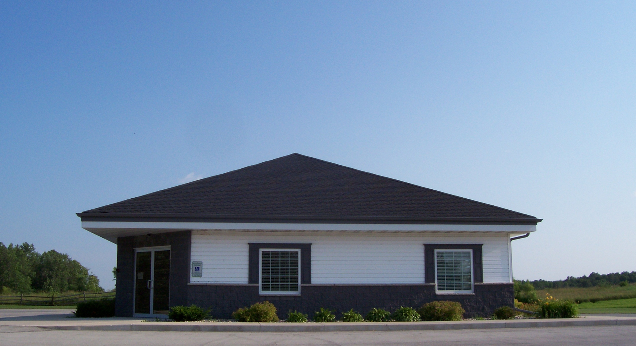 Looking south at the new town hall (2005) for Morrison, Wisconsin, USA in Brown County.